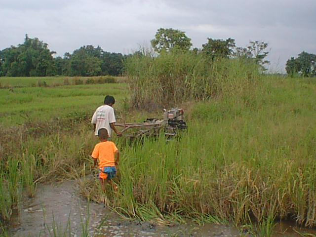 Photo depicting rice farming technique used in Nakhon Pa Mak, taken by Kevin Borland, July 2000.